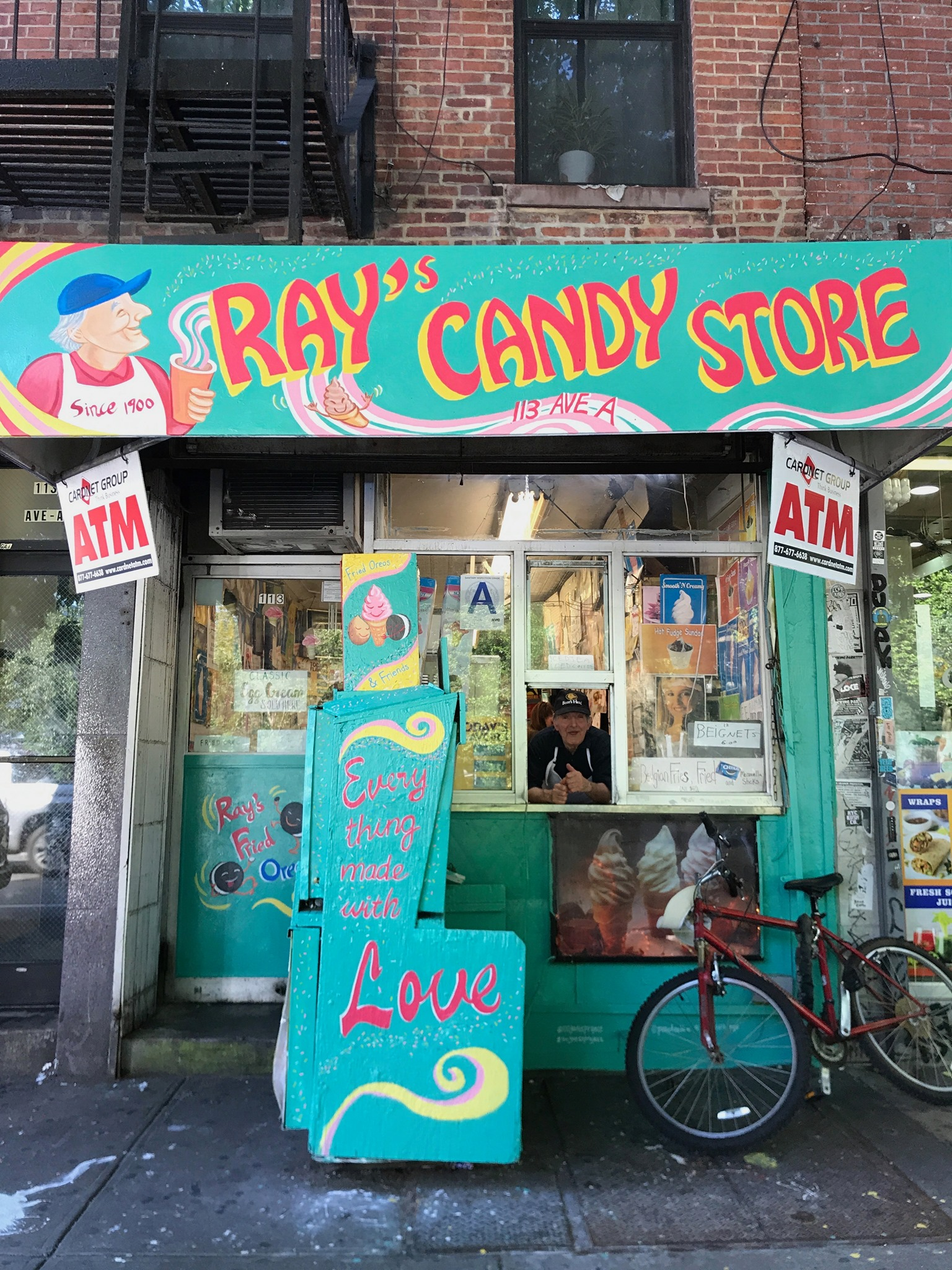 Ray's Candy Store storefront, circa June 2019. Illustration by Peach Tao.